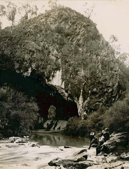 Entrance to Abercrombie Caves Dated: No date Digital ID: 12932_a012_a012X2445000088 Rights: We'd love to hear from you if you use our photos. Many other photos in our collection are available to view and browse on our website using Photo Investigator.